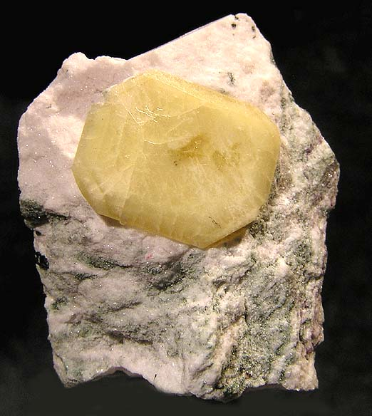 Narsarsukite Locality: Poudrette quarry (Demix quarry; Uni-Mix quarry; Desourdy quarry), Mont Saint-Hilaire, Rouville RCM, Montérégie, Québec, Canada (Locality at ) A SUPERB example of the rare YELLOW Narsarsukite to my knowledge found only here. In any case, its certainly gotta be the prettiest possible examples for the species and as for that, this thumbnail is one of the best I have seen (not the biggest mind you, but aesthetically as a specimen, its up there!). It features a perfectly balanced 1.3 cm crystal perched nicely on matrix and comes from the noted Marcelle and Charles Weber Collection. It is somewhat more translucent in person than it appears here. 2.6 x 2.0 x 1.4 cm